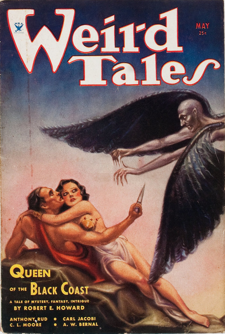 The cover of Weird Tales issue May 1934 featuring Queen of the Black Coast, one of Robert E. Howard's original stories about Conan the Barbarian. Painting by Margaret Brundage.